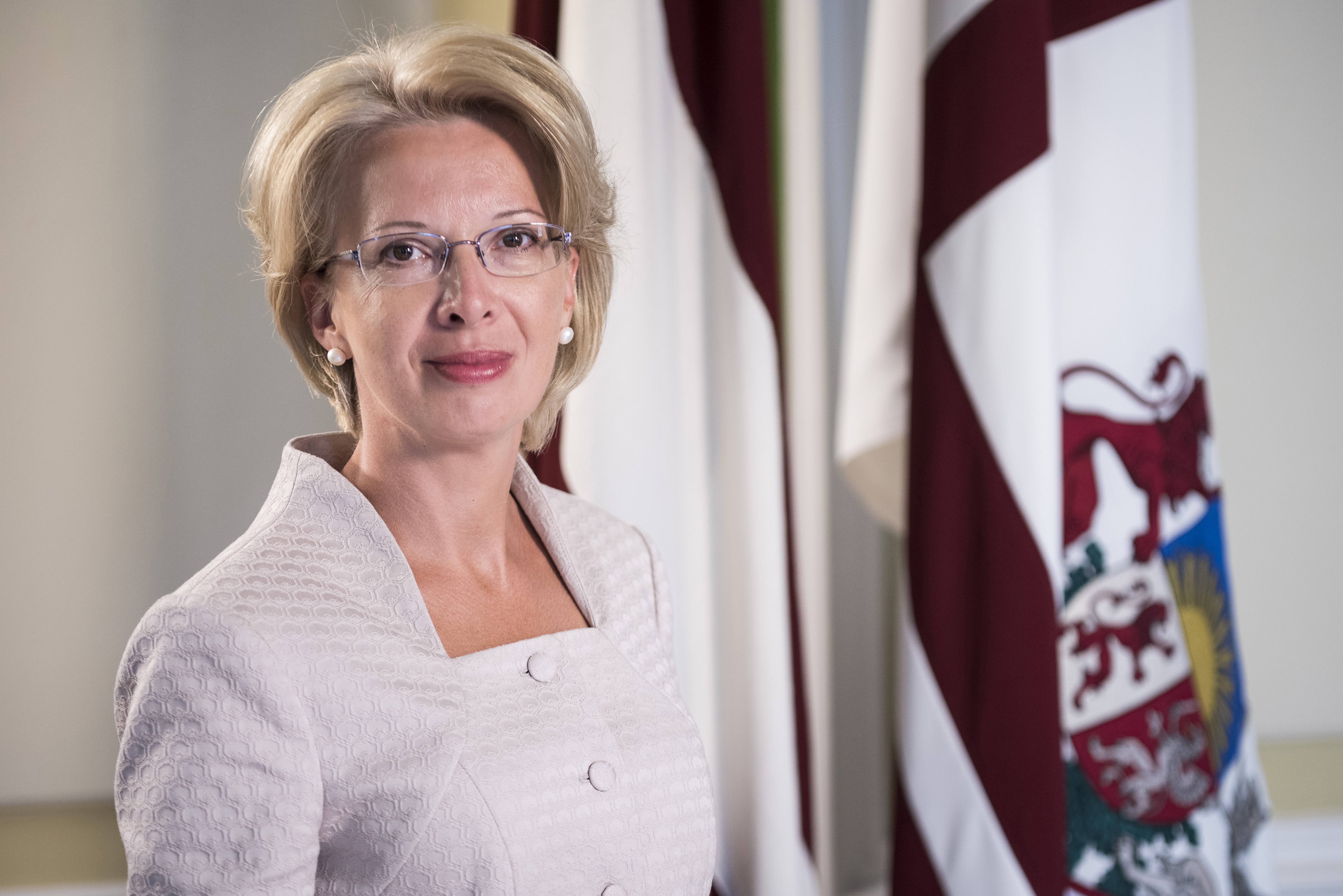 Ināra Mūrniece, Speaker of the Saeima, Official Photo